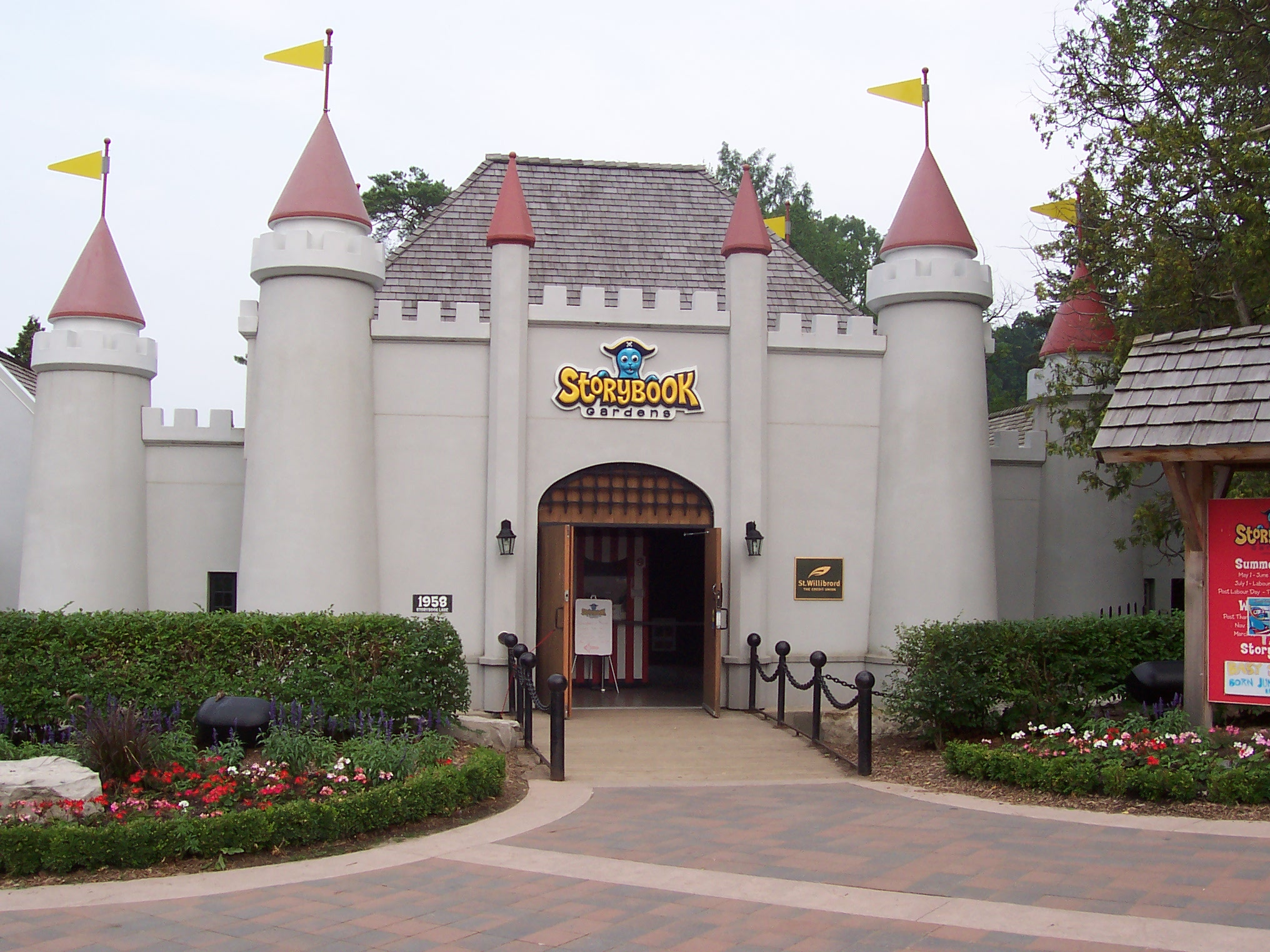 Entrée du parc thématique "Storybook Gardens", London, Ontario, Canada; Gateway to the Storybook Gardens theme park, London, Ontario, Canada